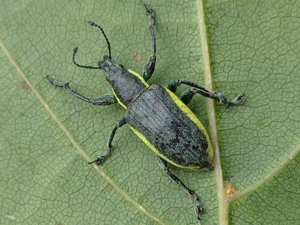 Chlorophanus viridis. Found in Riga town, Latvia